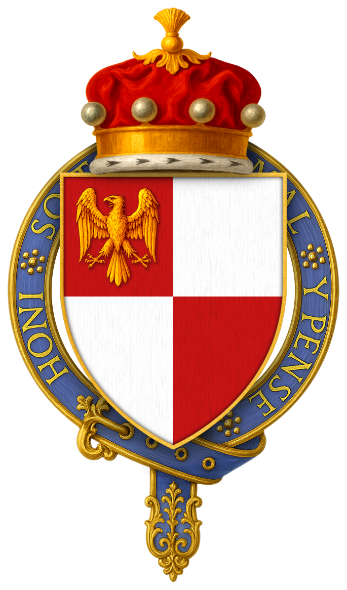 Sir William Phelip, Lord Bardolf, KG FOSTER, Joseph, Some Feudal Coats of Arms from Heraldic Rolls 1298-1418, London: James Parker & Co., 1902. “ Phelip, Sir William, K.G. 1418 - bore, quarterly gules and argent, in the first an eagle displayed or; K. 401 fo. 16. ”